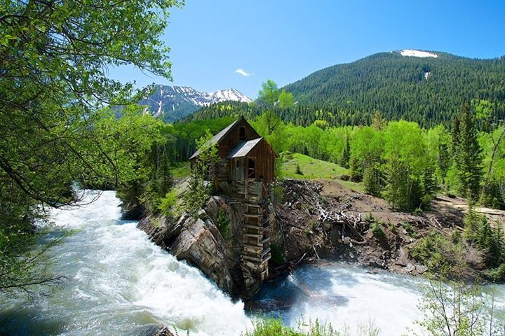 Crystal Mill